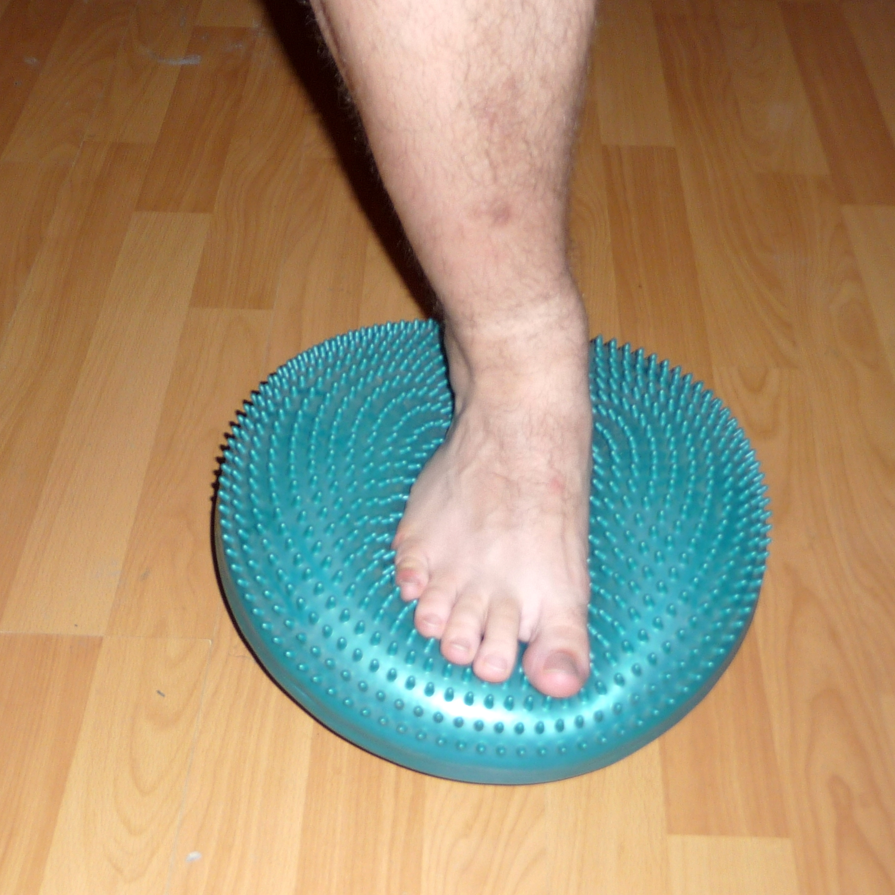 Balance discus with massage points for improving balance, acupressure and massage the underside of the foot with leg